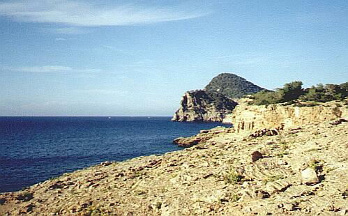 On 2002-06-03 00:28:23, Flups uploaded file Ibiza.Nono.jpg fotografed by Flups, GNU FDL